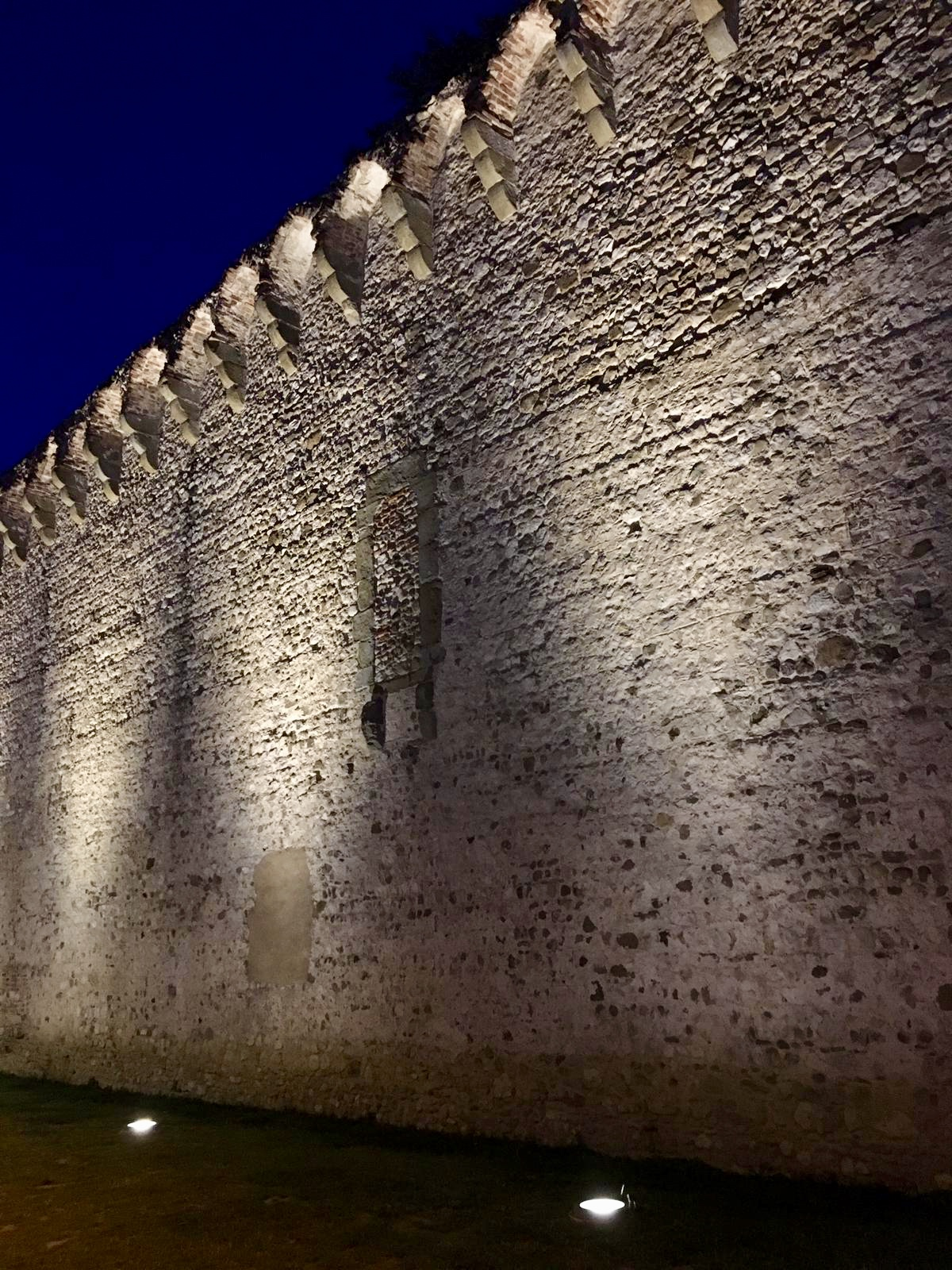 Prato, medieval walls